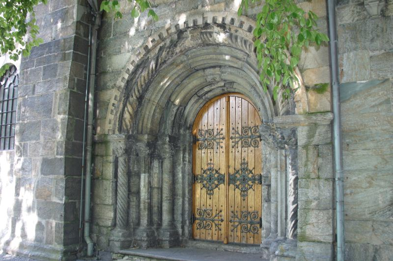 Doorway of St. Mary's Church in Bergen.